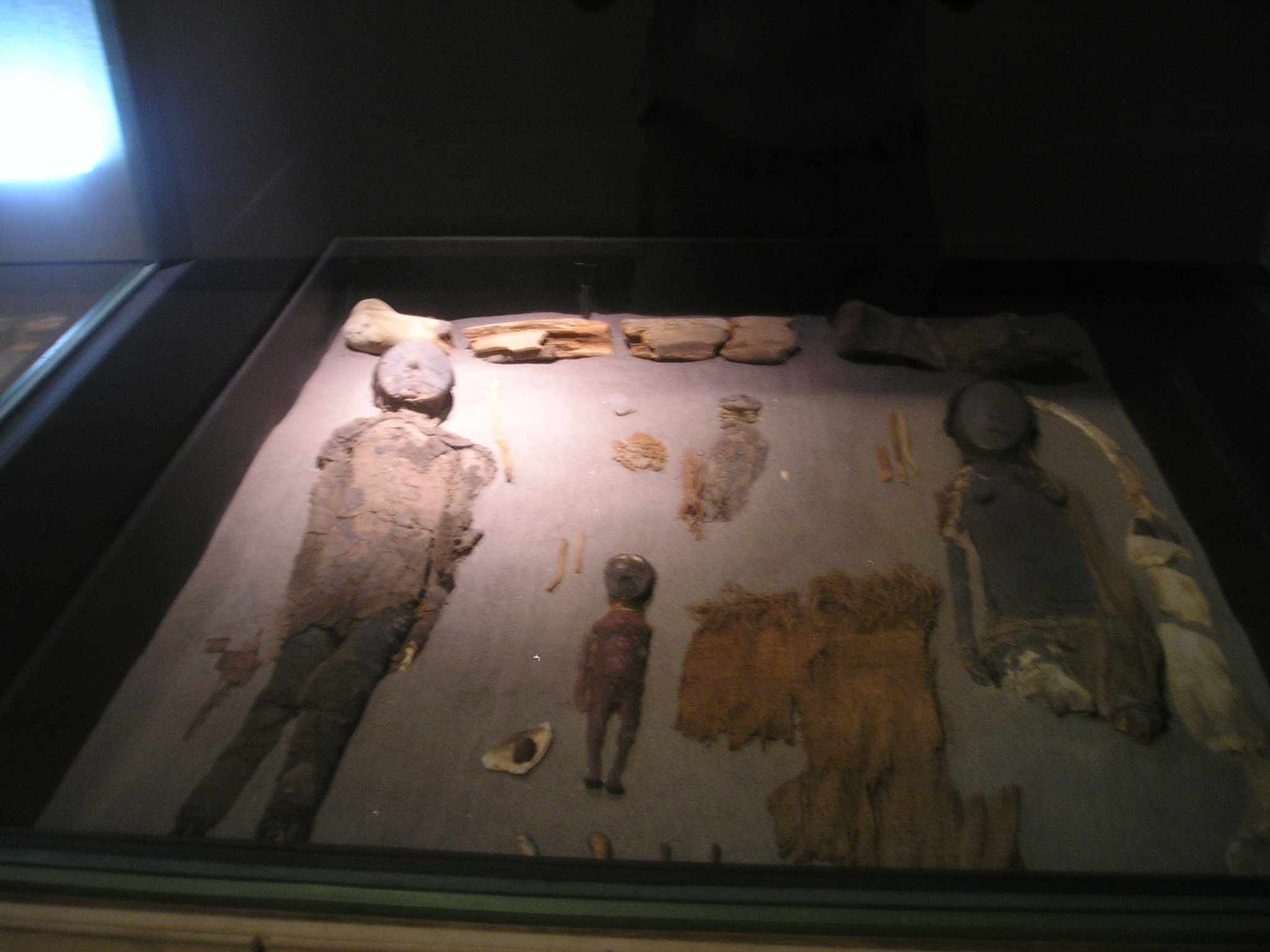 Chinchorro mummies, ones of the oldest preserved in the world, at the museum in San Miguel de Azapa, 12 km from Arica, Chile. The museum allows only no flash photos.